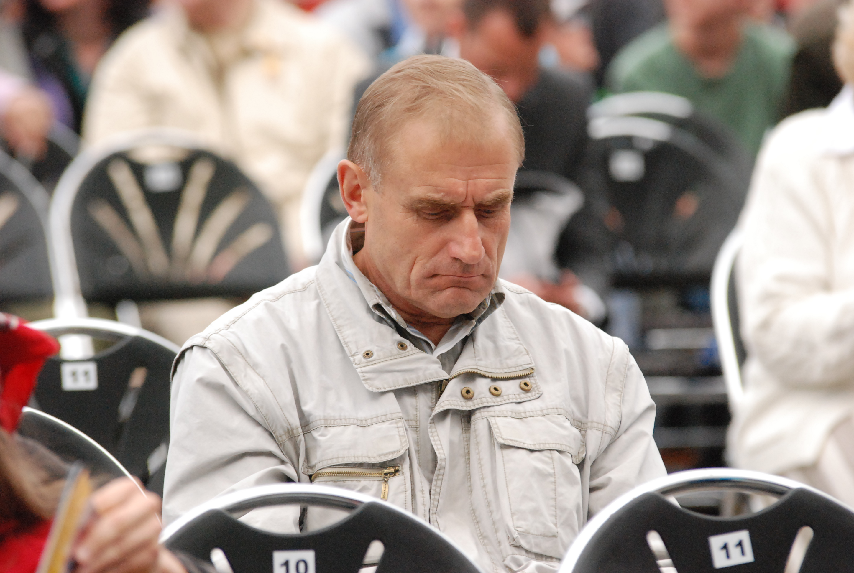 Commander-in-Chief of the Estonian Defence Forces Ants Laaneots at XXV Estonian Song Celebration in 2009.